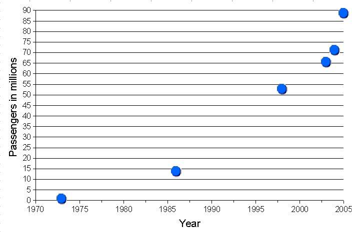 Growth of carried passengers of Southwest Airlines (1973-2005)